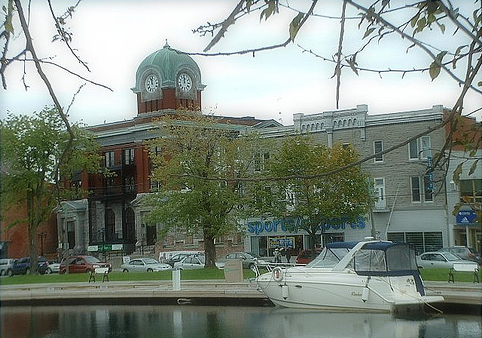 City center of salaberry-de-valleyfield